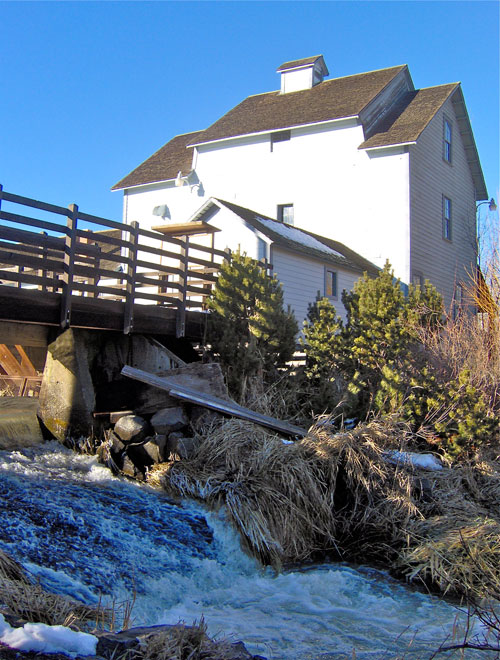 Historic Thorp Mill, U.S. National Register of Historic Places